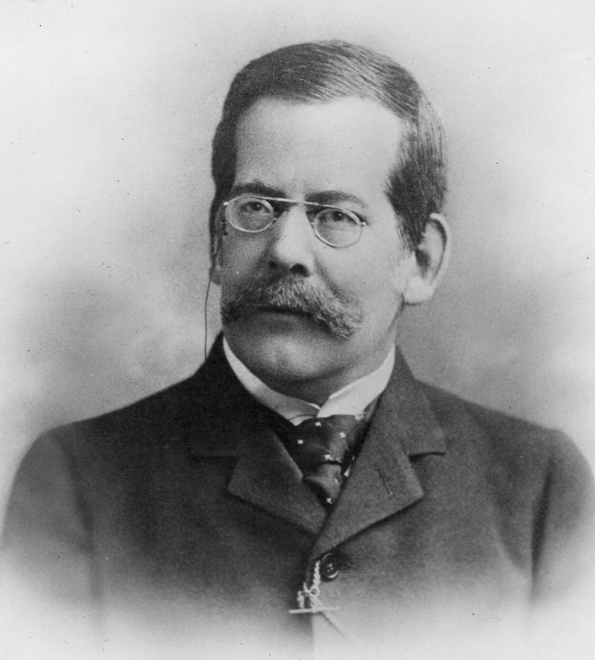 Picture of linguist Henry Sweet (died 1912)